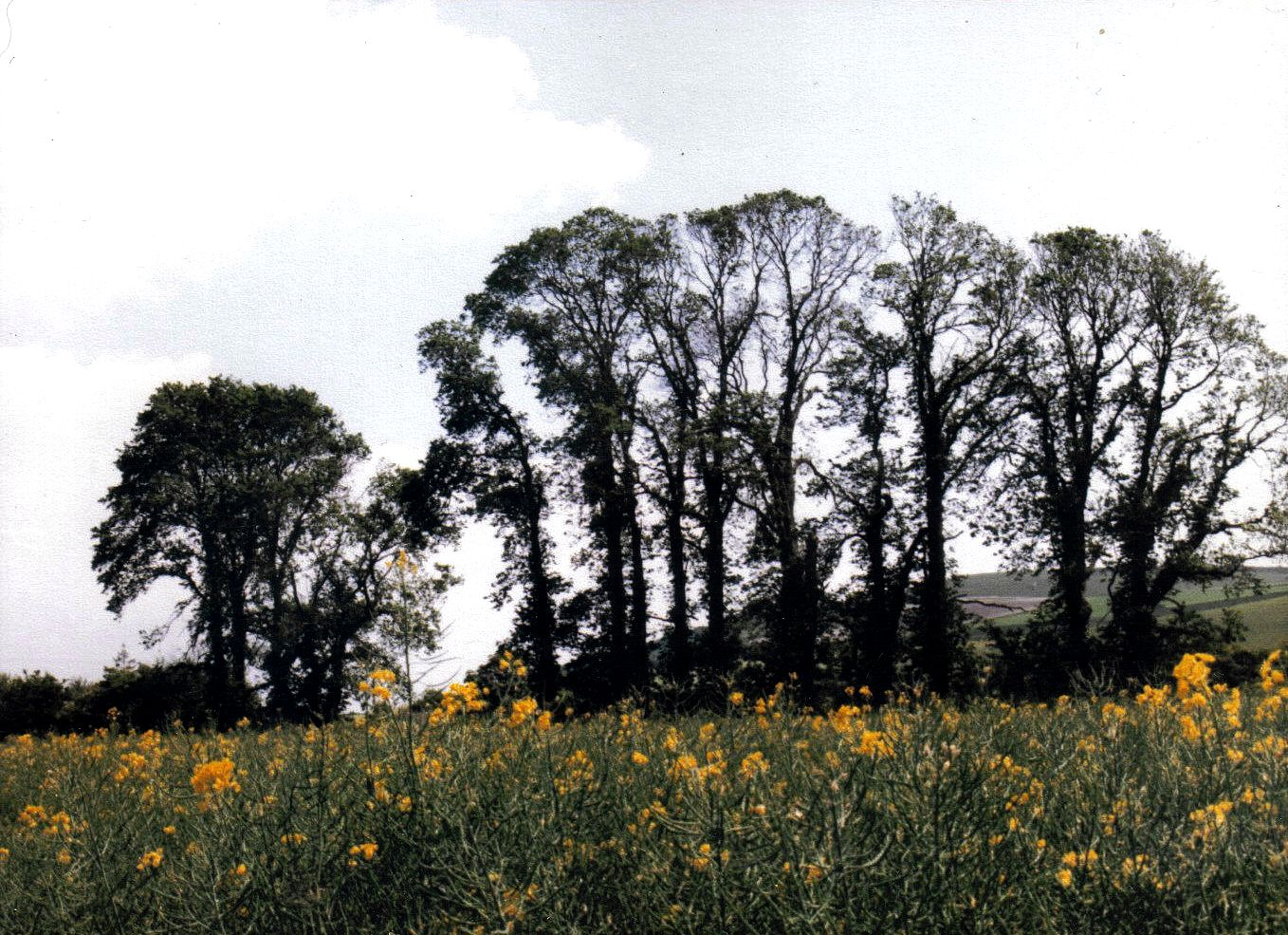 English elm in hedgerow, near Alfriston, East Sussex, UK. Photo 1996